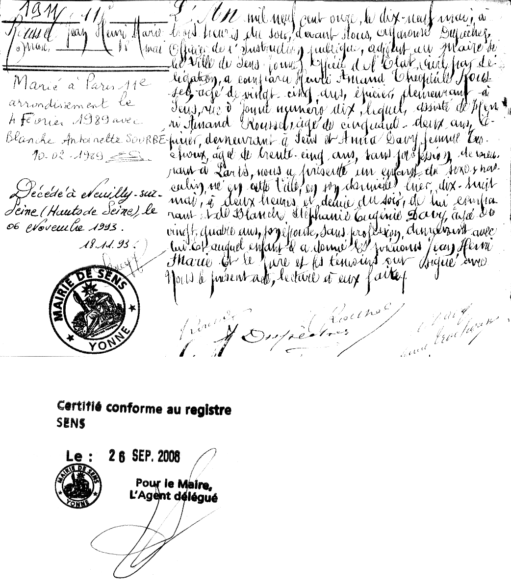 Birth certificate of Jean Roussel (Jean Rignac).